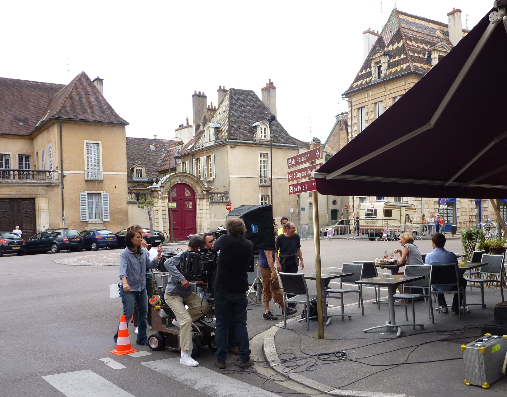 Patrice Leconte shooting "Voir la mer" in Dijon, August 2010.